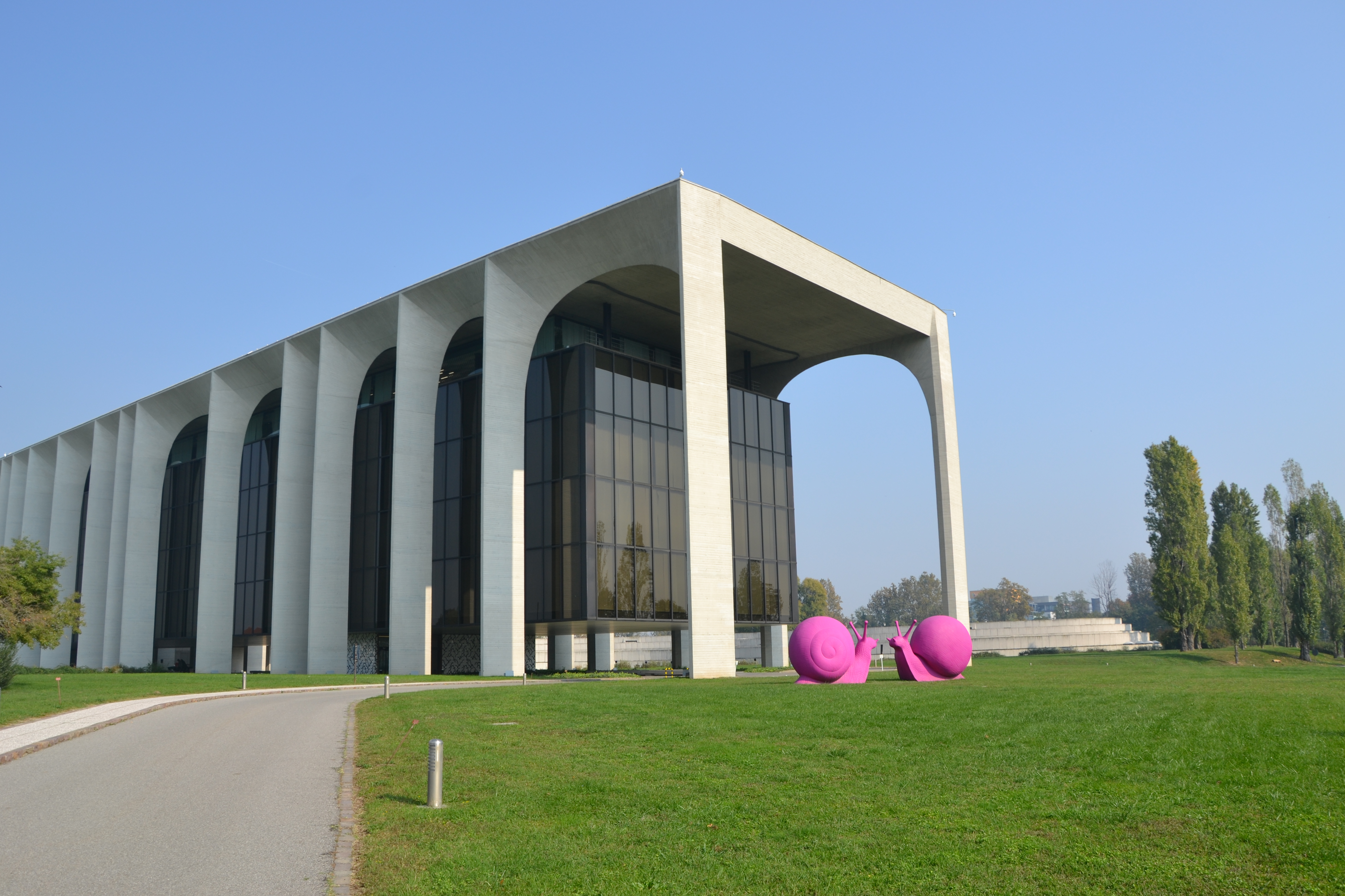 Mondadori headquarters by Oscar Niemeyer (1967 - 1970), Segrate (Milano).